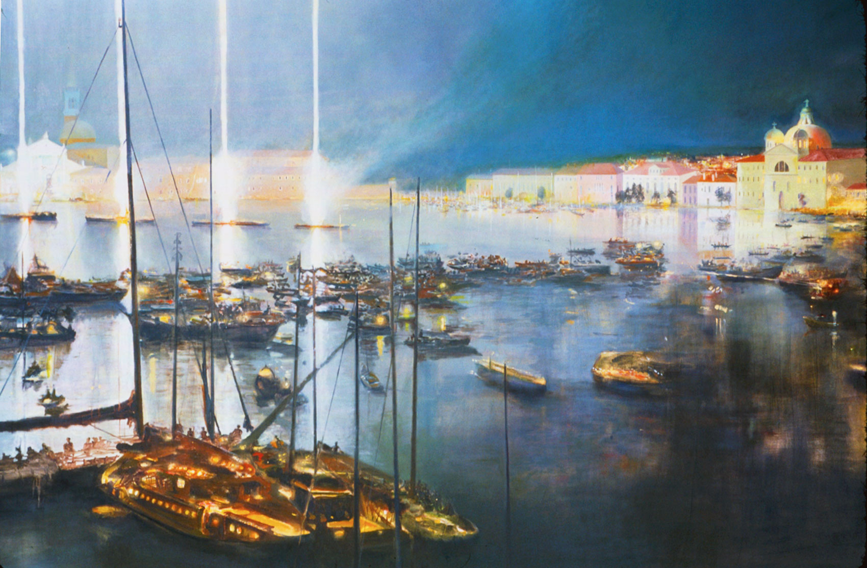 Oil Painting of the Feast of the Redeemer in Venice, Italy, by Sergio Rossetti Morosini, 1995